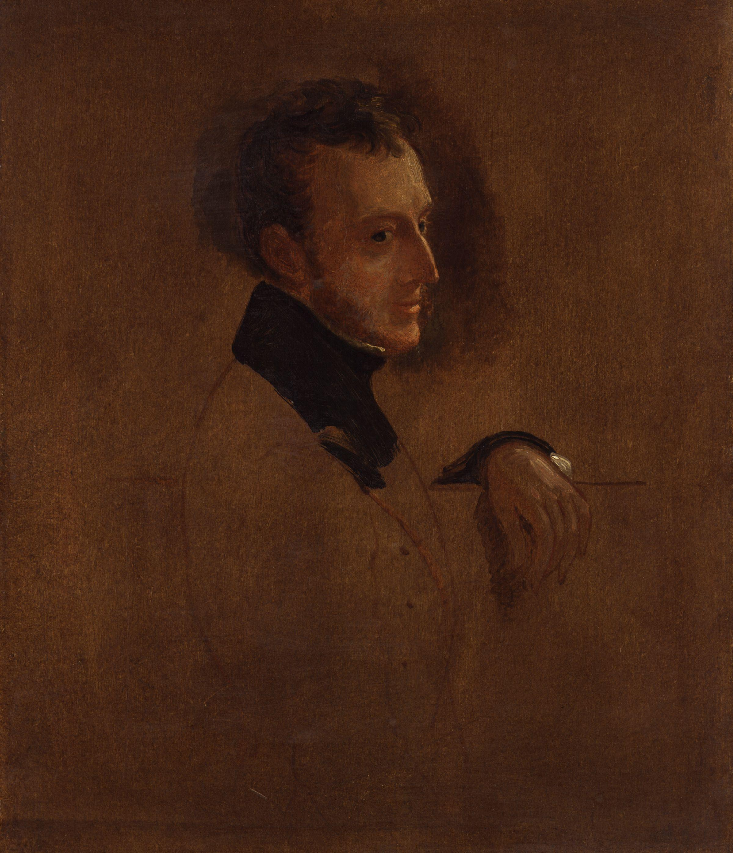 Charles Wood, 1st Viscount Halifax, by Sir George Hayter (died 1871). All images in this batch have been confirmed as author died before 1939 according to the official death date listed by the NPG.